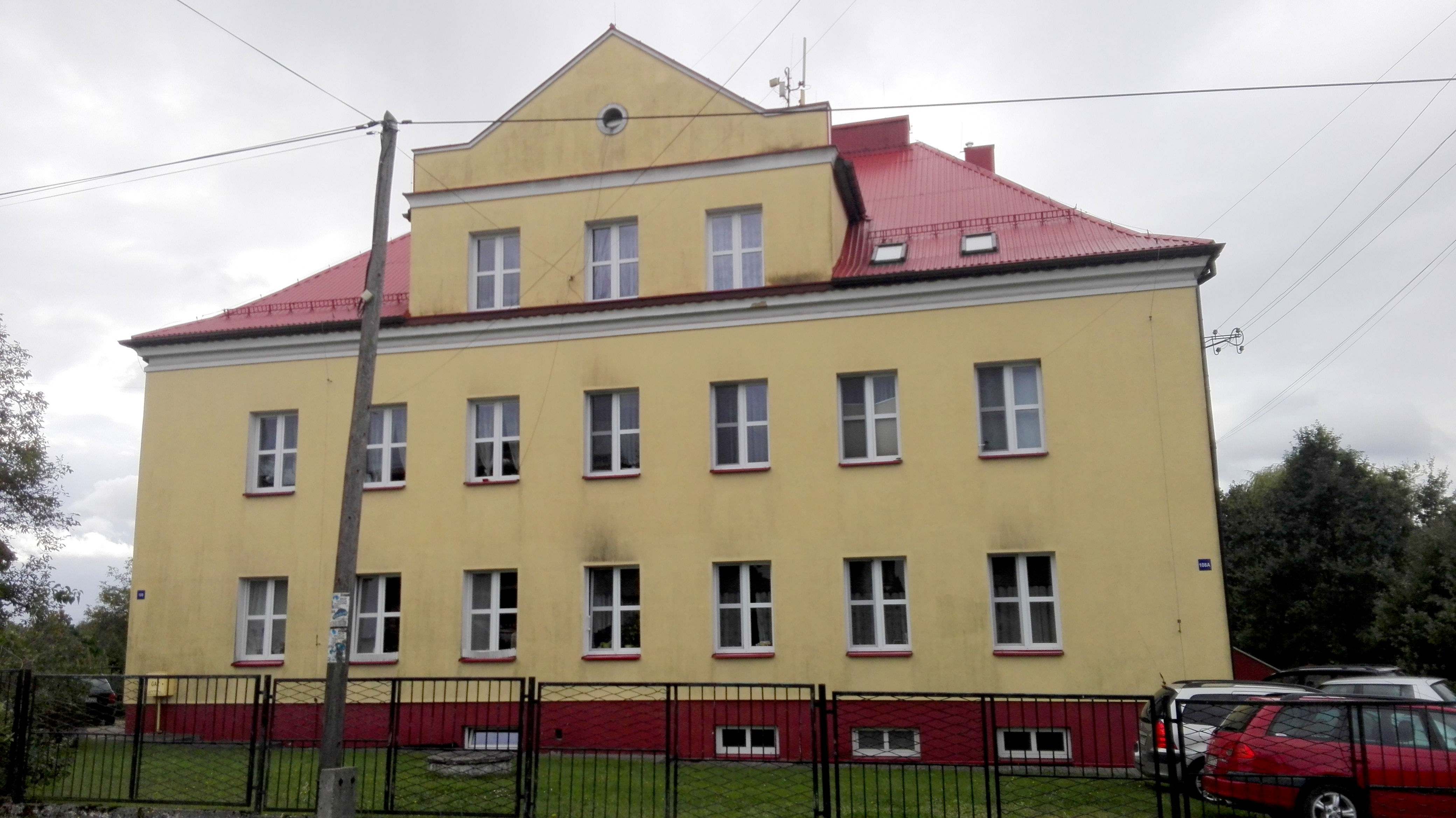 108 Piotrowicka Street in Skrbeńsko. WOP post in Skrbeńsko. Border Protection Forces in Skrbeńsko.